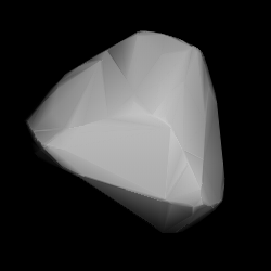 3D convex shape model of 1356 Nyanza, computed using light curve inversion techniques. J. Hanuš, J. Ďurech, M. Brož, B. D. Warner (June 2011). "A study of asteroid pole-latitude distribution based on an extended set of shape models derived by the lightcurve inversion method". Astronomy and Astrophysics 530: A134. ISSN 0004-6361. arXiv